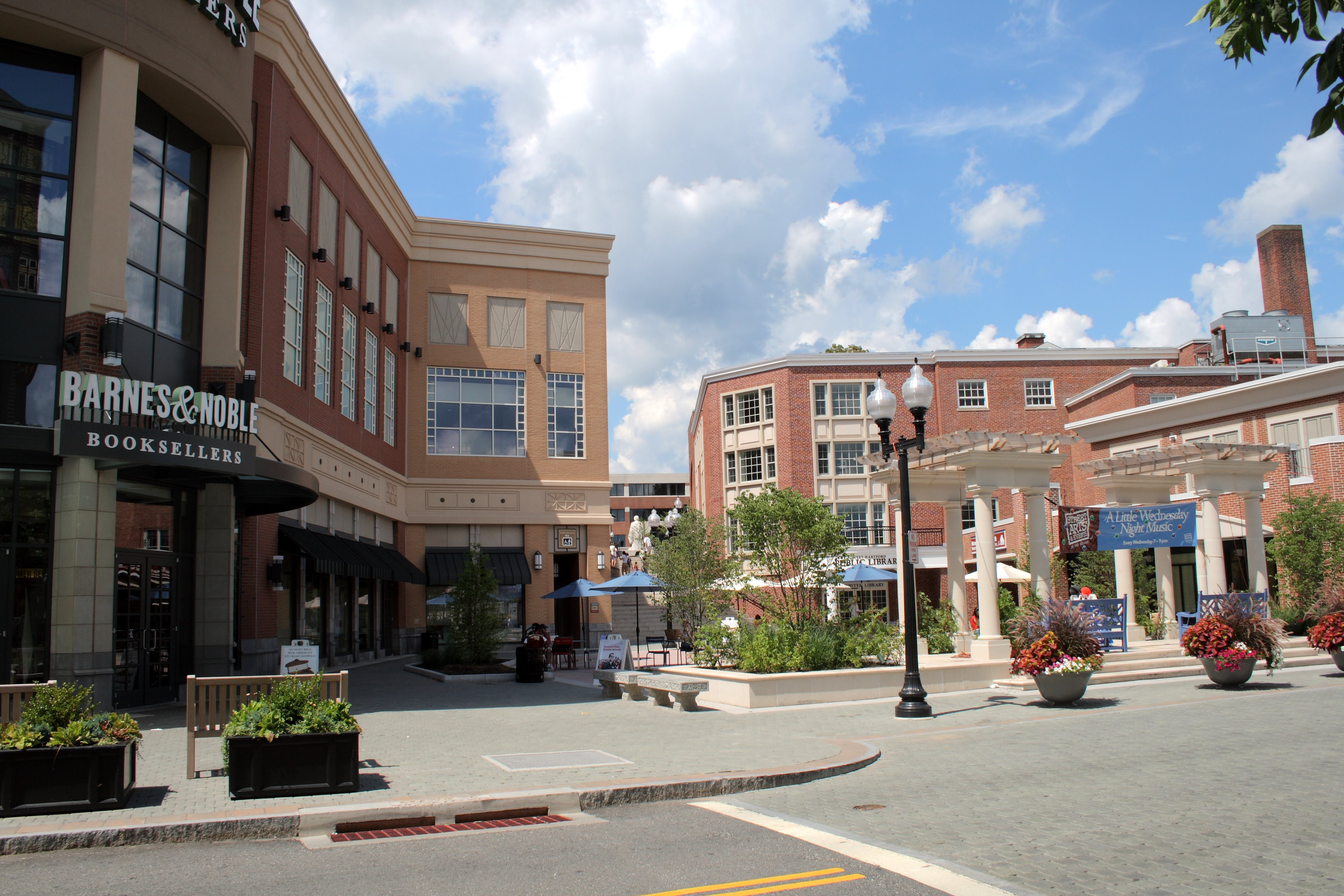 One of the main areas of Blue Back Square in West Hartford, Connecticut, featuring the main branch of the West Hartford Public Library, the West Hartford Historical Society, and a Barnes & Noble bookstore. Korczak Ziółkowski's sculpture of Noah Webster is visible at the top of the stairs in the background between the two buildings.